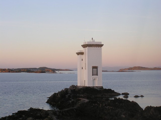 Author: Ron Steenvoorden. I made this picture from the Port Ellen Lighthouse in 2004. The original can be found here